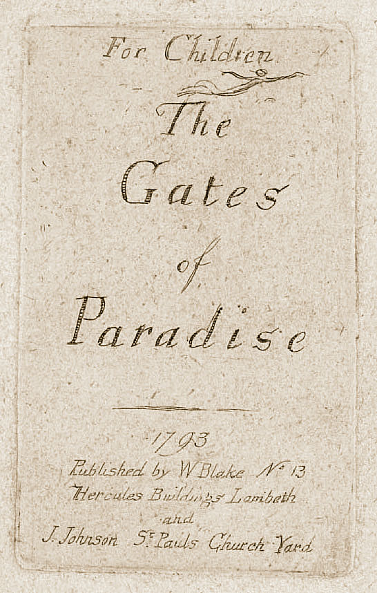 For Children The Gates of Paradise copy D object 2